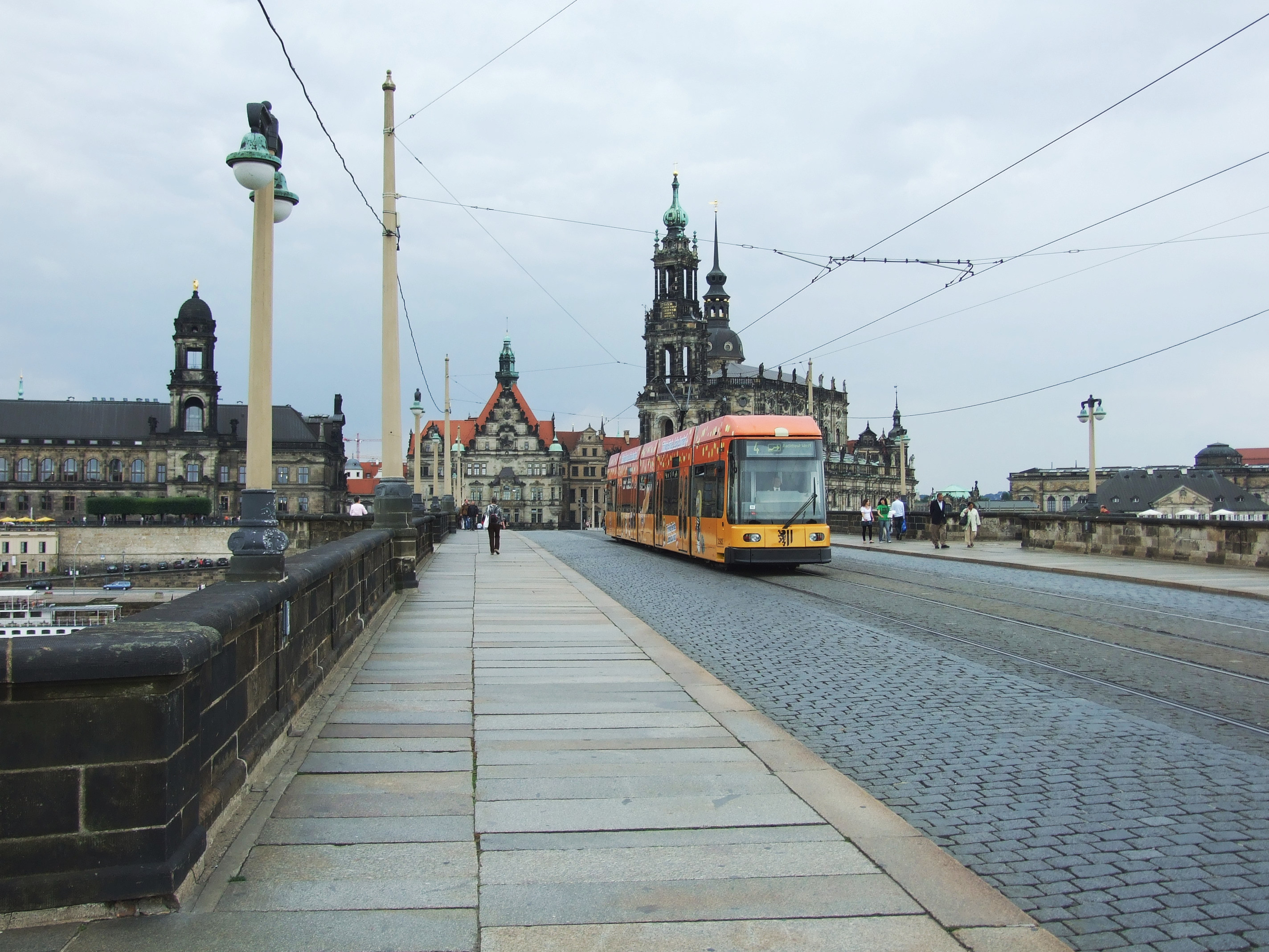 Dresden trams, Germanyhelp